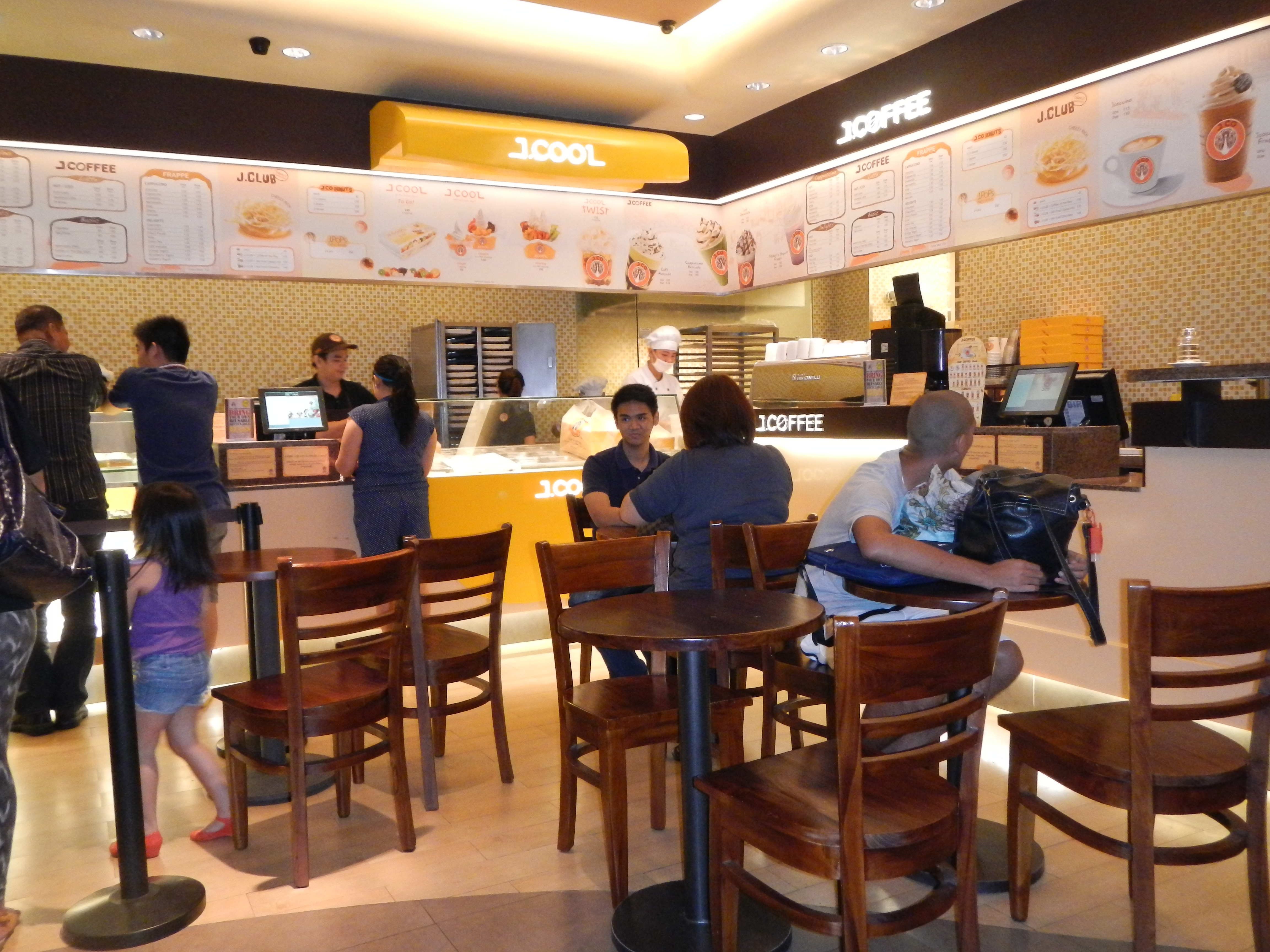 J.CO Donuts at TriNoma